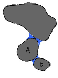 Conceptual sketch of water held near particle contacts by capillary tension.